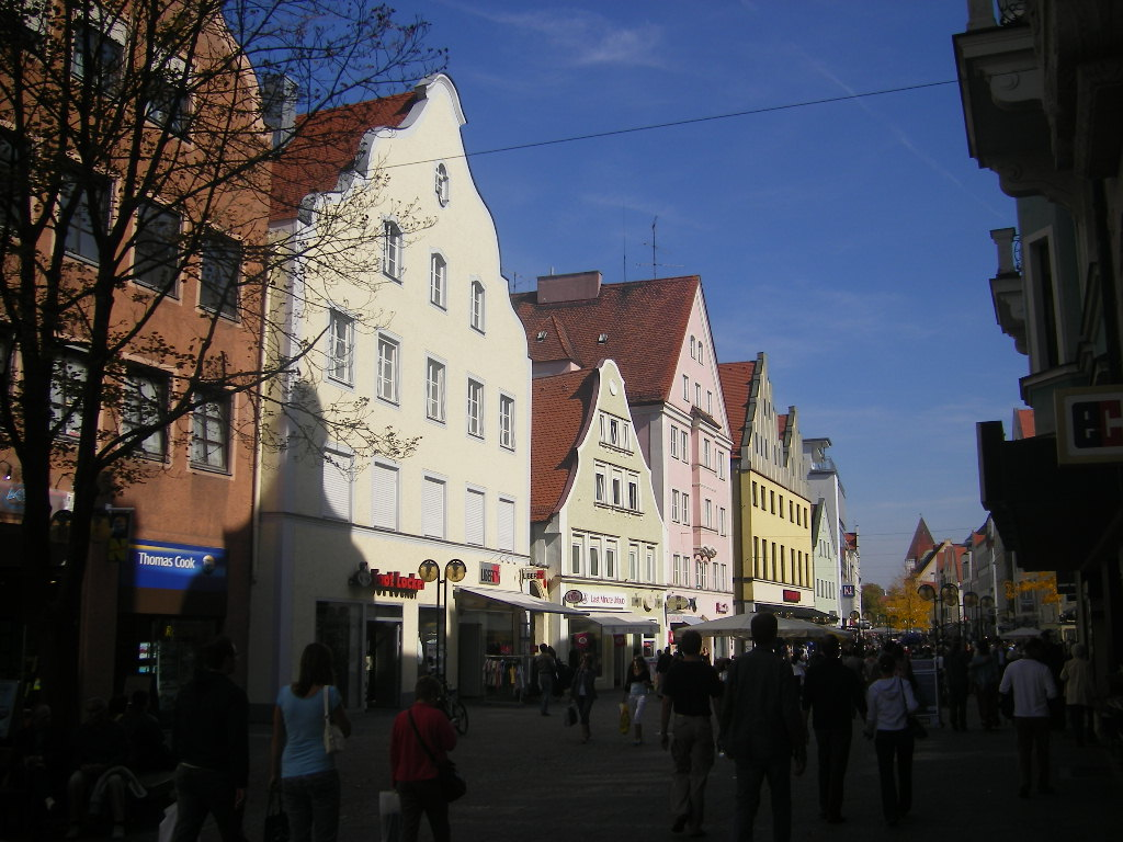 Ingolstadt, city centre